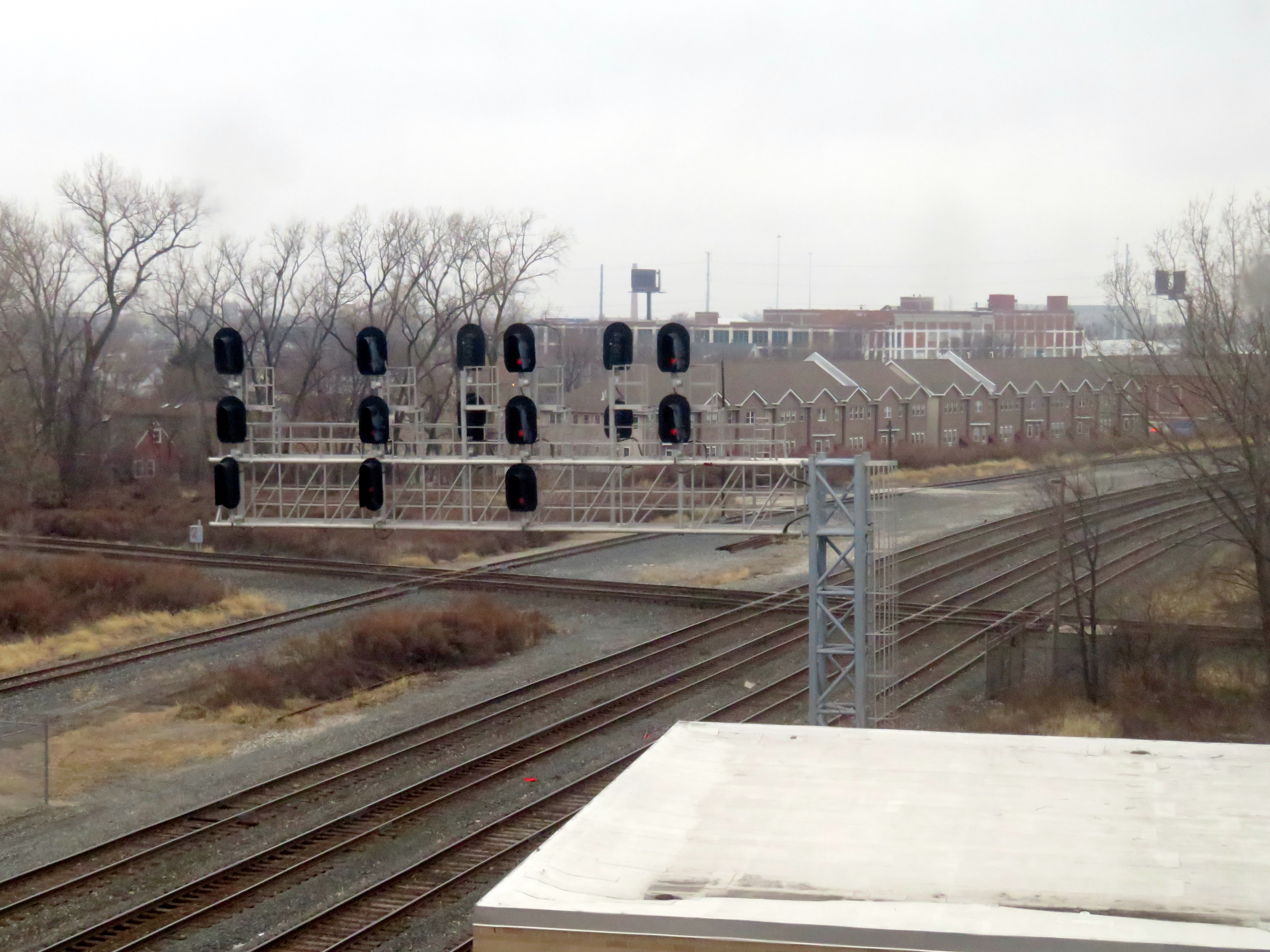 Brighton Park crossing viewed from the Orange Line in December 2018